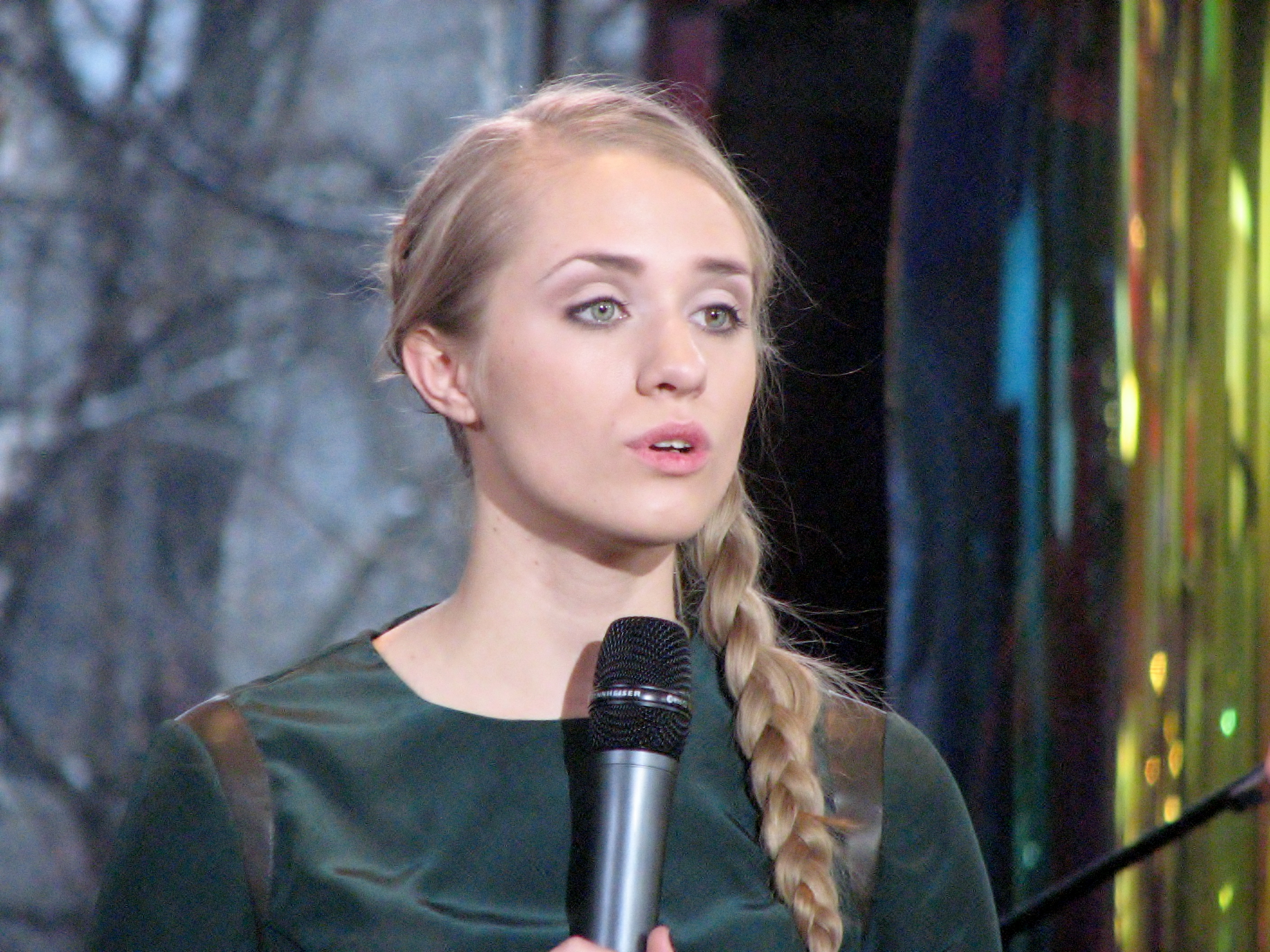 Estonian singer Maia Vahtramäe performing in Solaris centre with a band Põhja-Tallinn